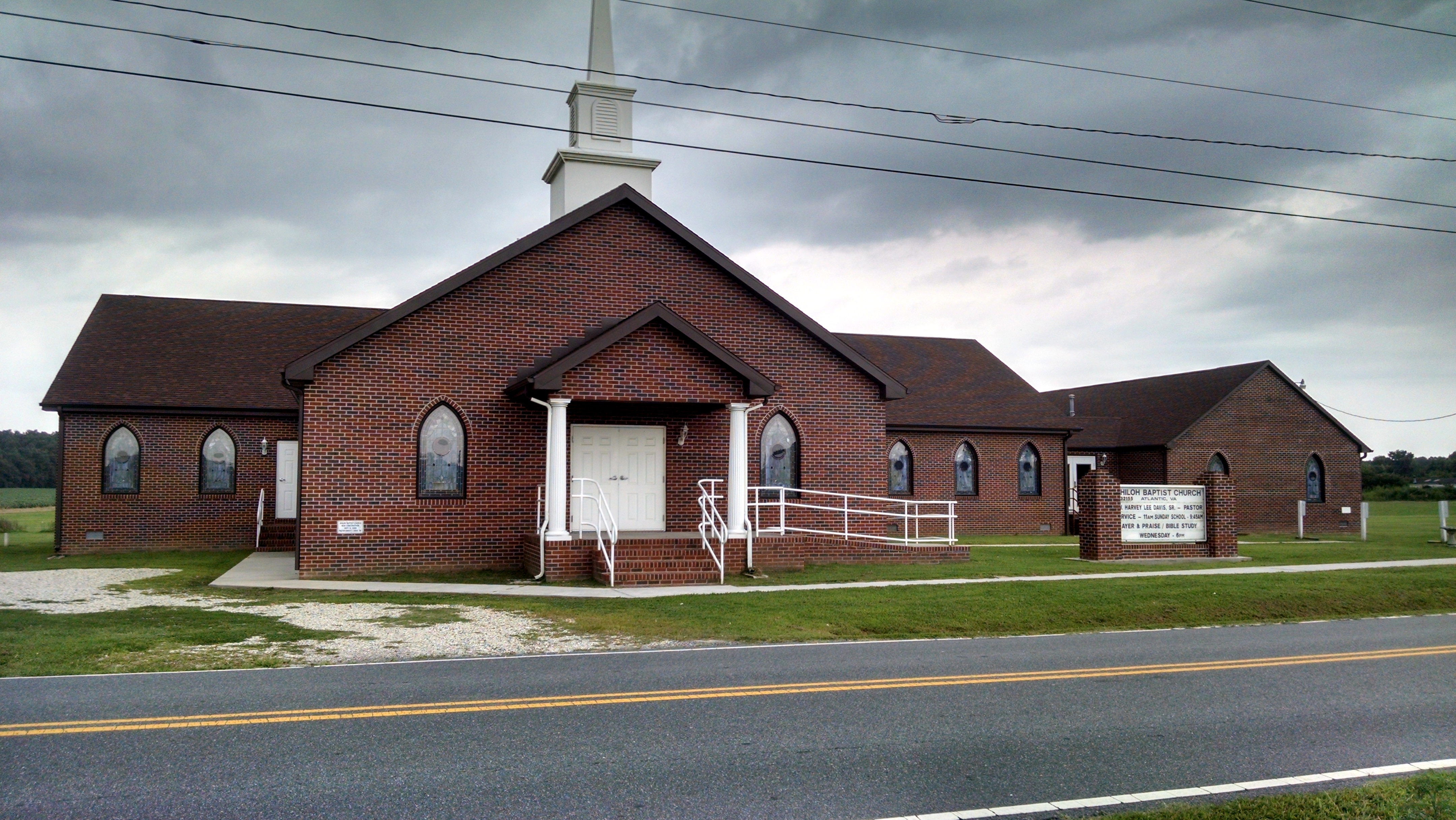 Shiloh Baptist Church in The Oaks neighborhood of Atlantic, Virginia